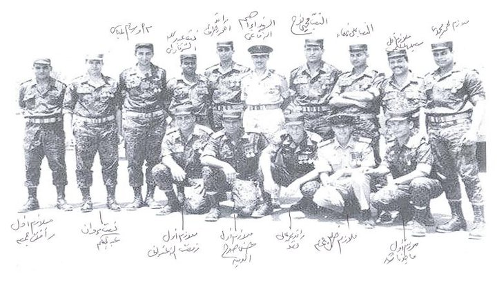 A photo of the group's 39 fight